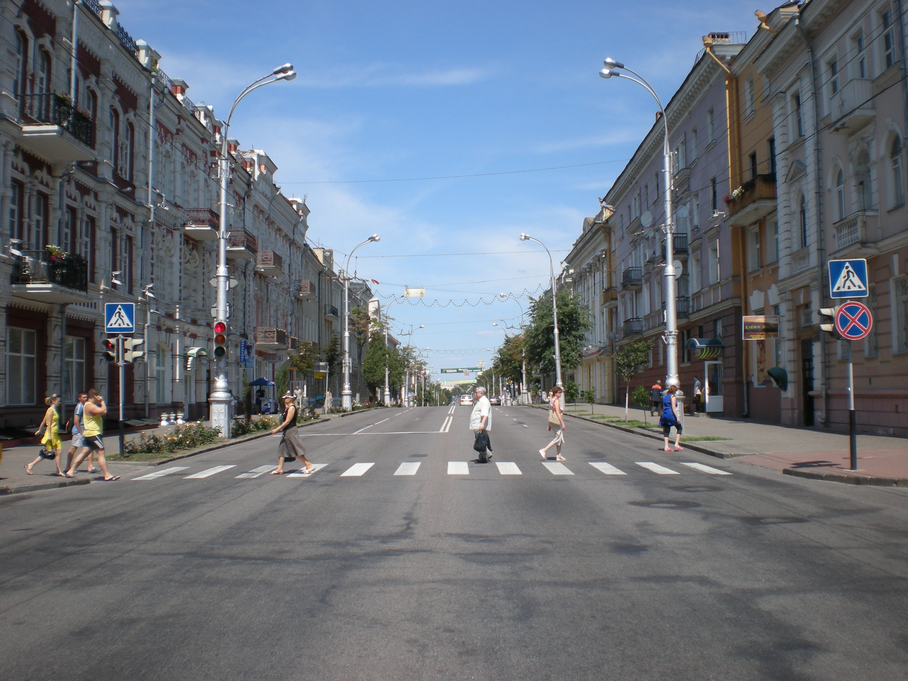 Sovetskaya str. in Gomel